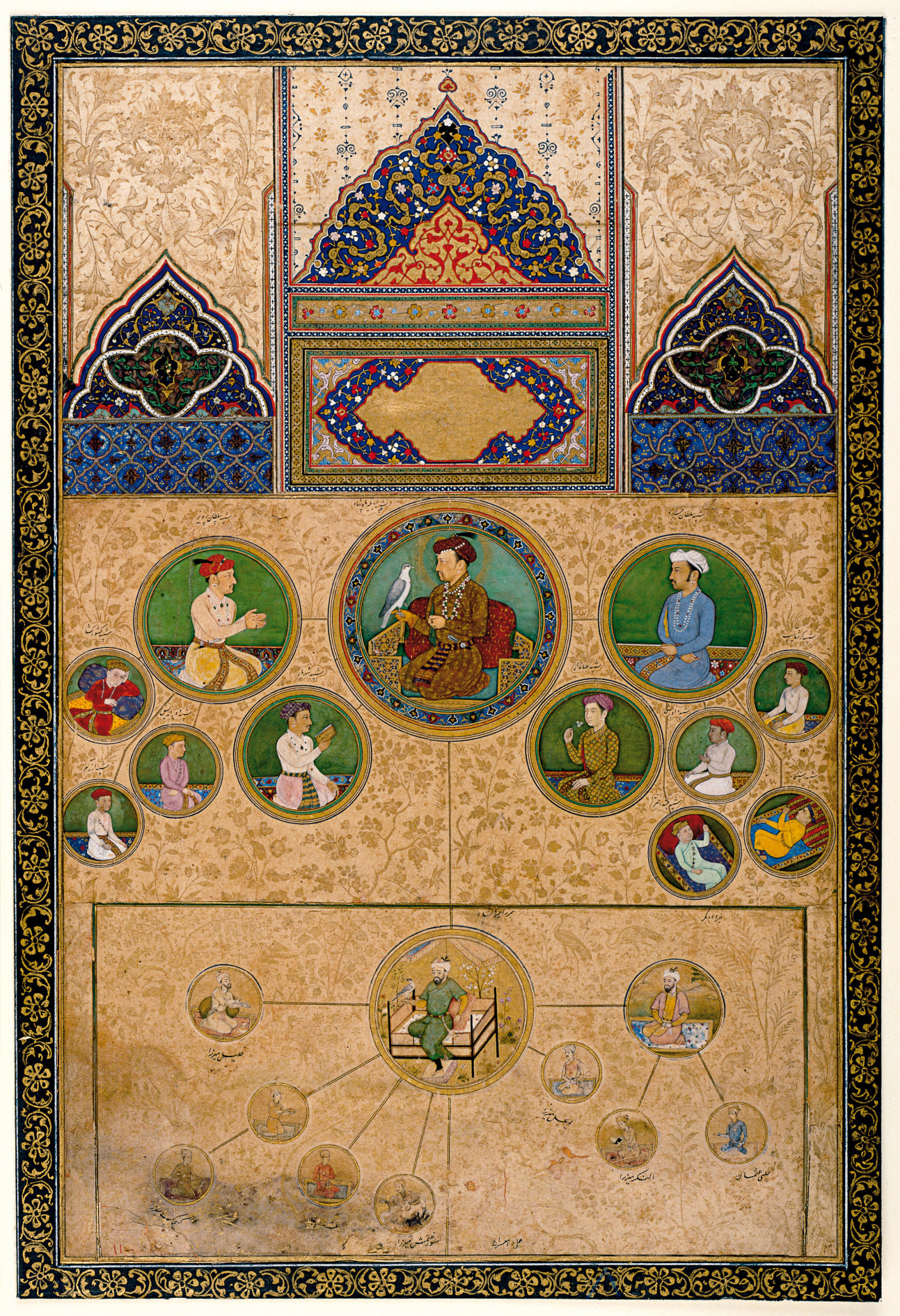 Pictorial Genealogy Of The Descendants Of Jahangir. ca. 1623-27, Aga Khan Museum, Ceneva. As per Sheila R. Canby, Princes, Poets & Paladins: Islamic and Indian Paintings from the Collection of Prince and Princess Sadruddin Aga Khan (1988), p. 145: The figures depicted in the upper band are Jahangir in the centre connected by lines to four of his sons, from right to left Khusrau, Jahandar, Shahriyar and Sultan Parviz. The children at the right are the four sons of Khusrau: Garshasp, Dawar Bakhsh, Rastakar and Boland Akhtar. At the left the three sons of Sultan Parviz are Durandish, Azaram and Kishwar Kosha. The lower panel consists of Miran Shah in the centre with his sons from right to left: Abu Bakr, Ayyal, Suyurghatmish, 'Umar, Sayyidi Ahmad and Sultan Khalil.